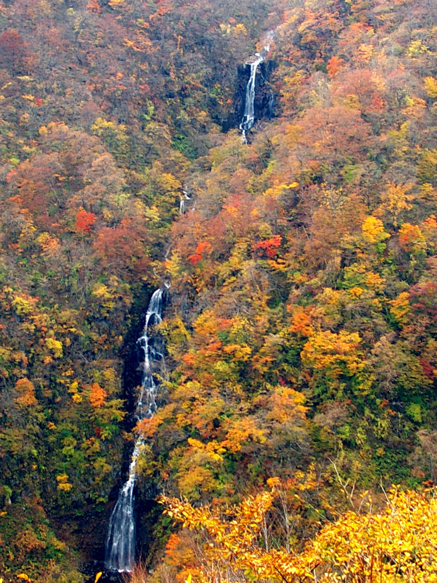 Sankai falls, at Zao, Miyagi pref., Japan. I took this photo on 05 Nov, 2007.